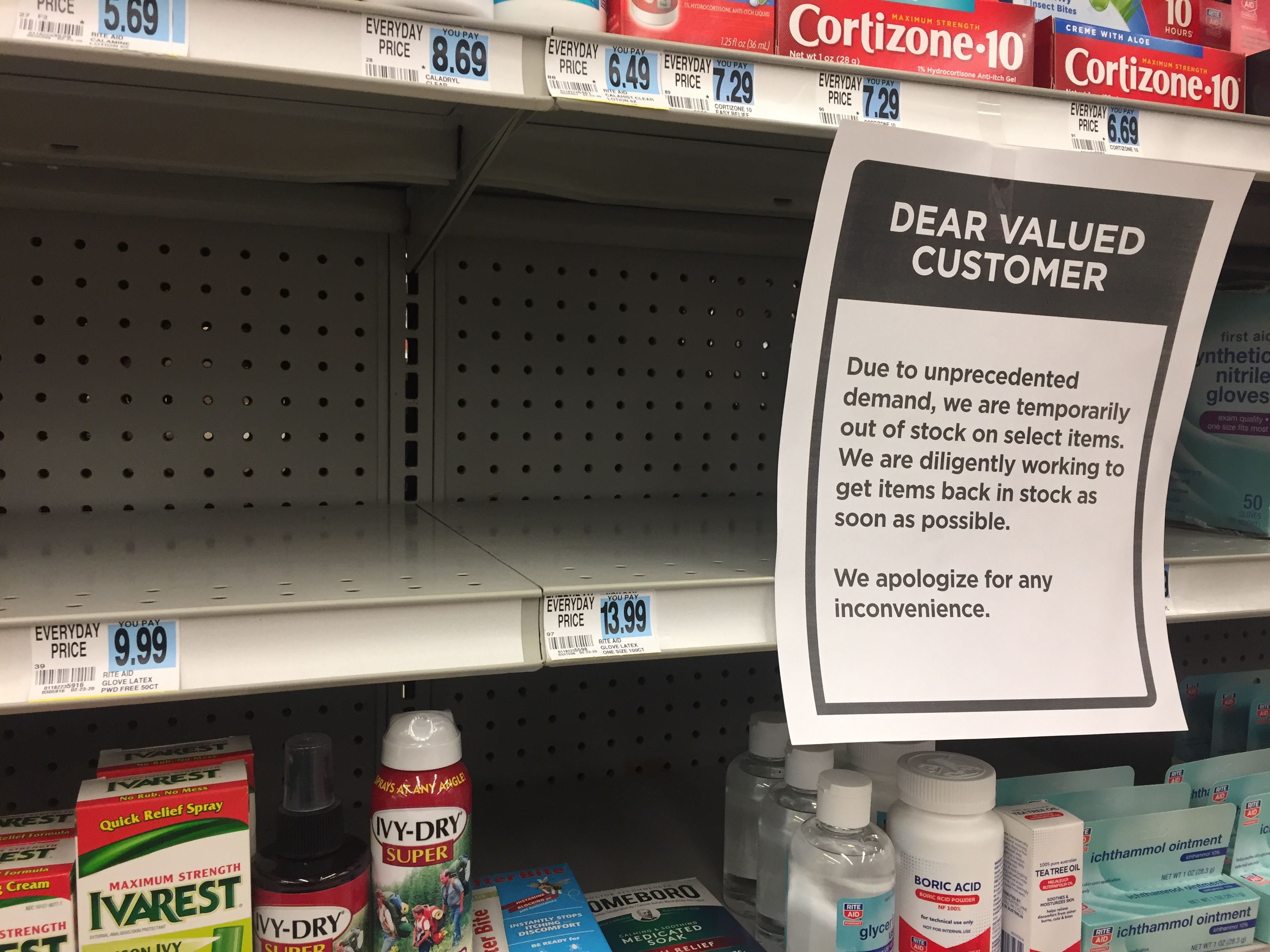 Where there once was hand sanitizer at the Rite Aid in downtown Portland, there are now empty shelves. In the midst of the Coronavirus epidemic, both hand sanitizer and gloves are becoming hard to find in pharmacies.